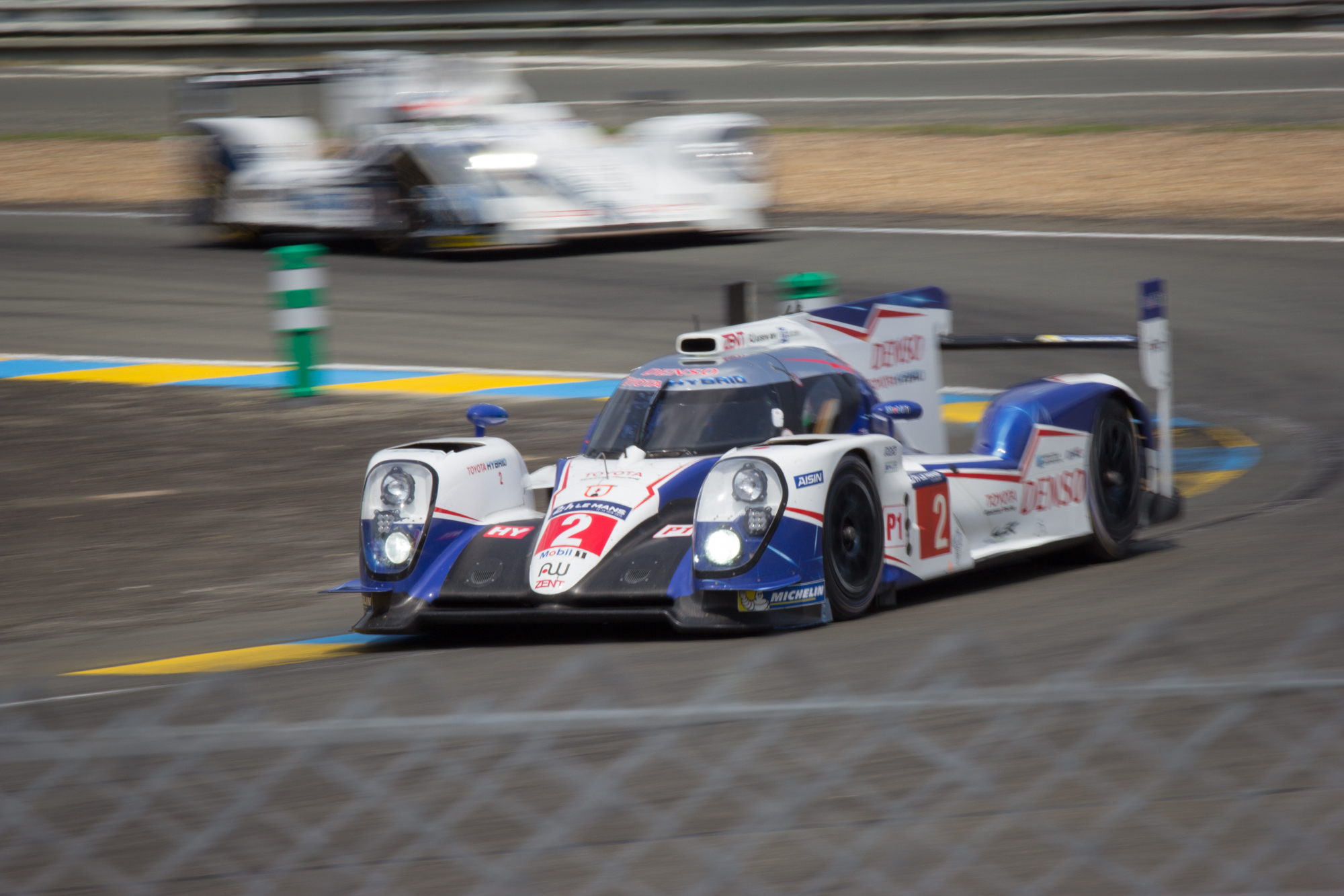 Toyota Racing - Toyota TS 040 Hybrid #2